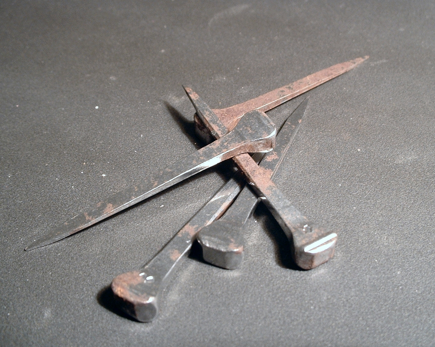 Horseshoe nails used for holding the glass pieces in place in lead-came glasswork